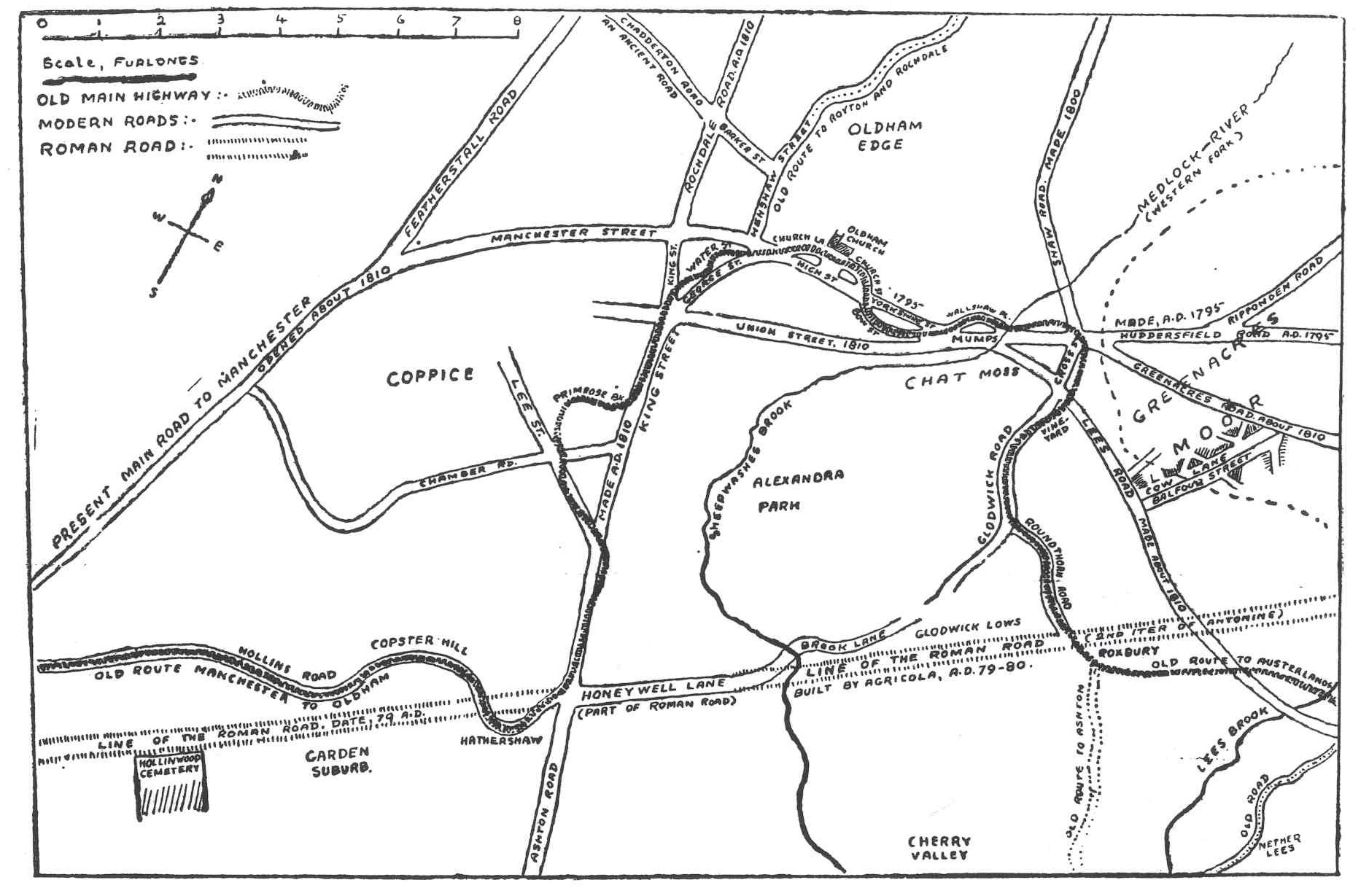 Map of tracks through Oldham in ancient times